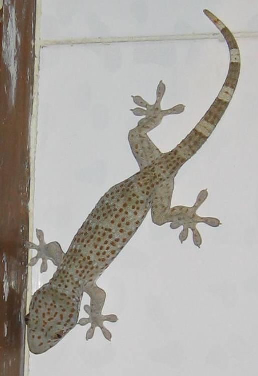 house lizard/gecko in a house in Dhaka, Bangladesh